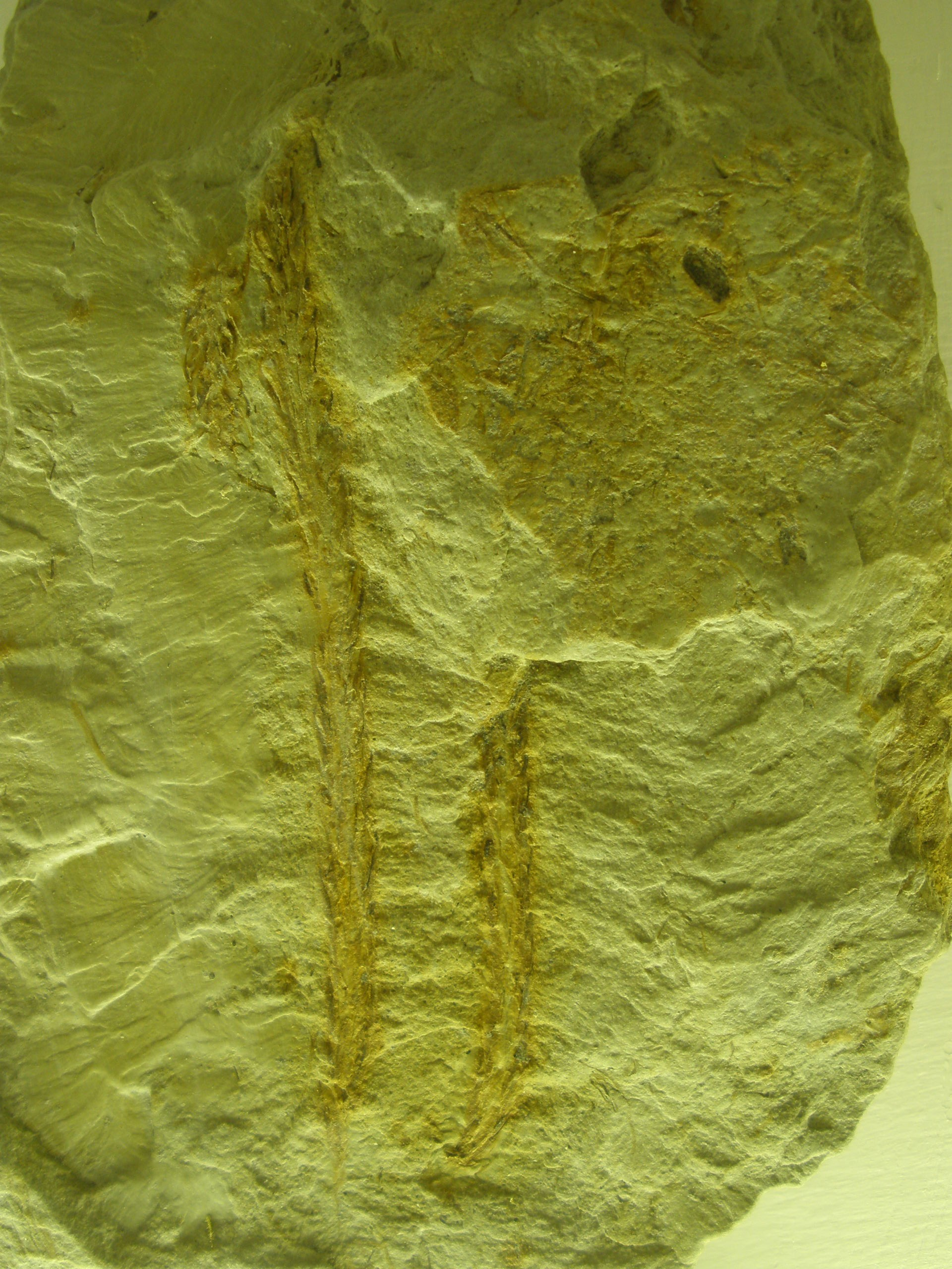 Took the photo at Museo di Storia Naturale di Verona